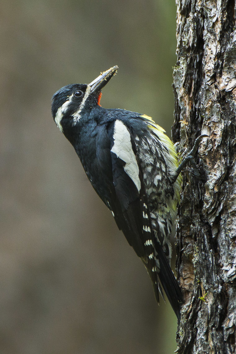 Williamson's Sapsucker - Sisters - Oregon_S4E1518